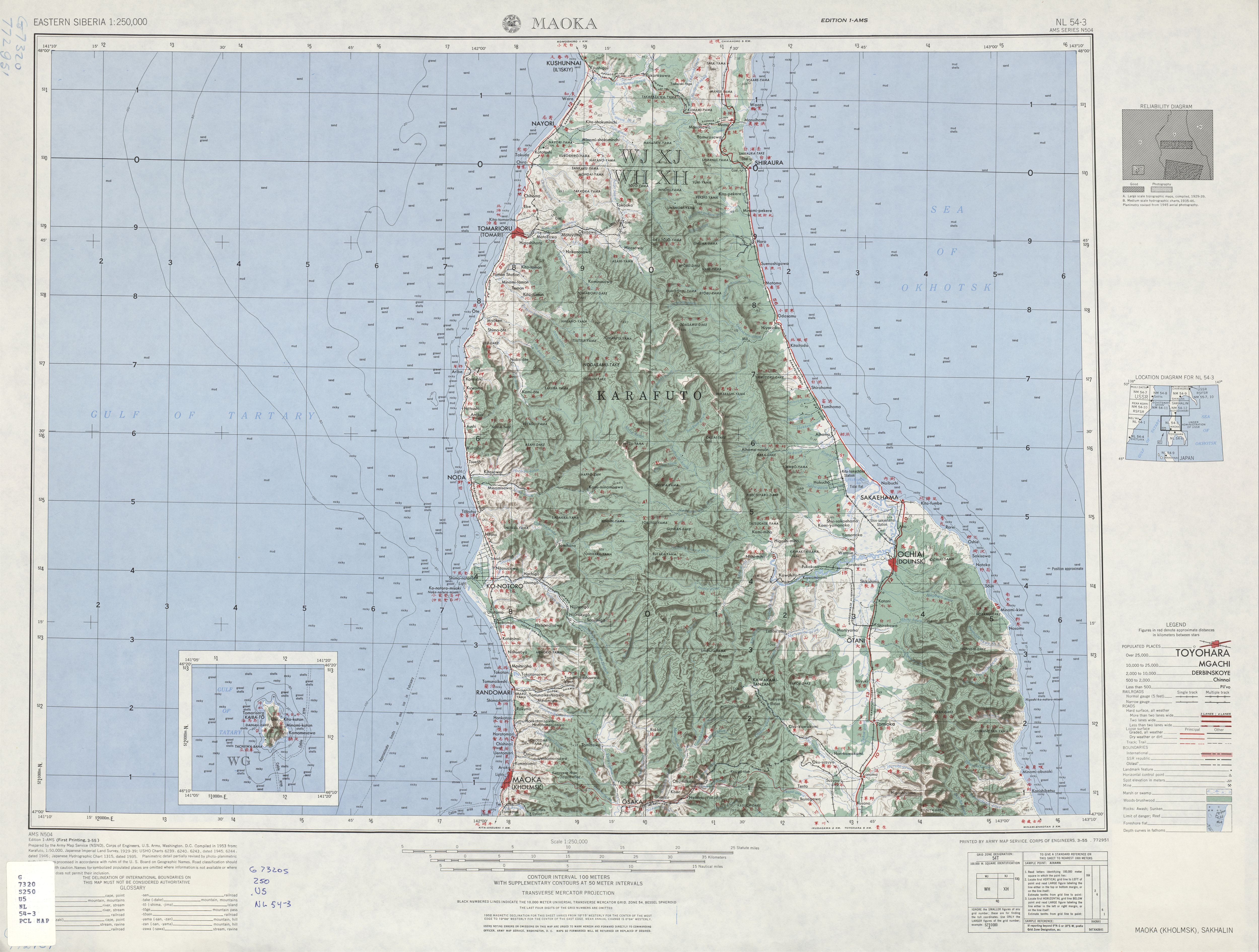 List from Eastern Siberia AMS Topographic Maps. Series N504, U.S. Army Map Service, 1947